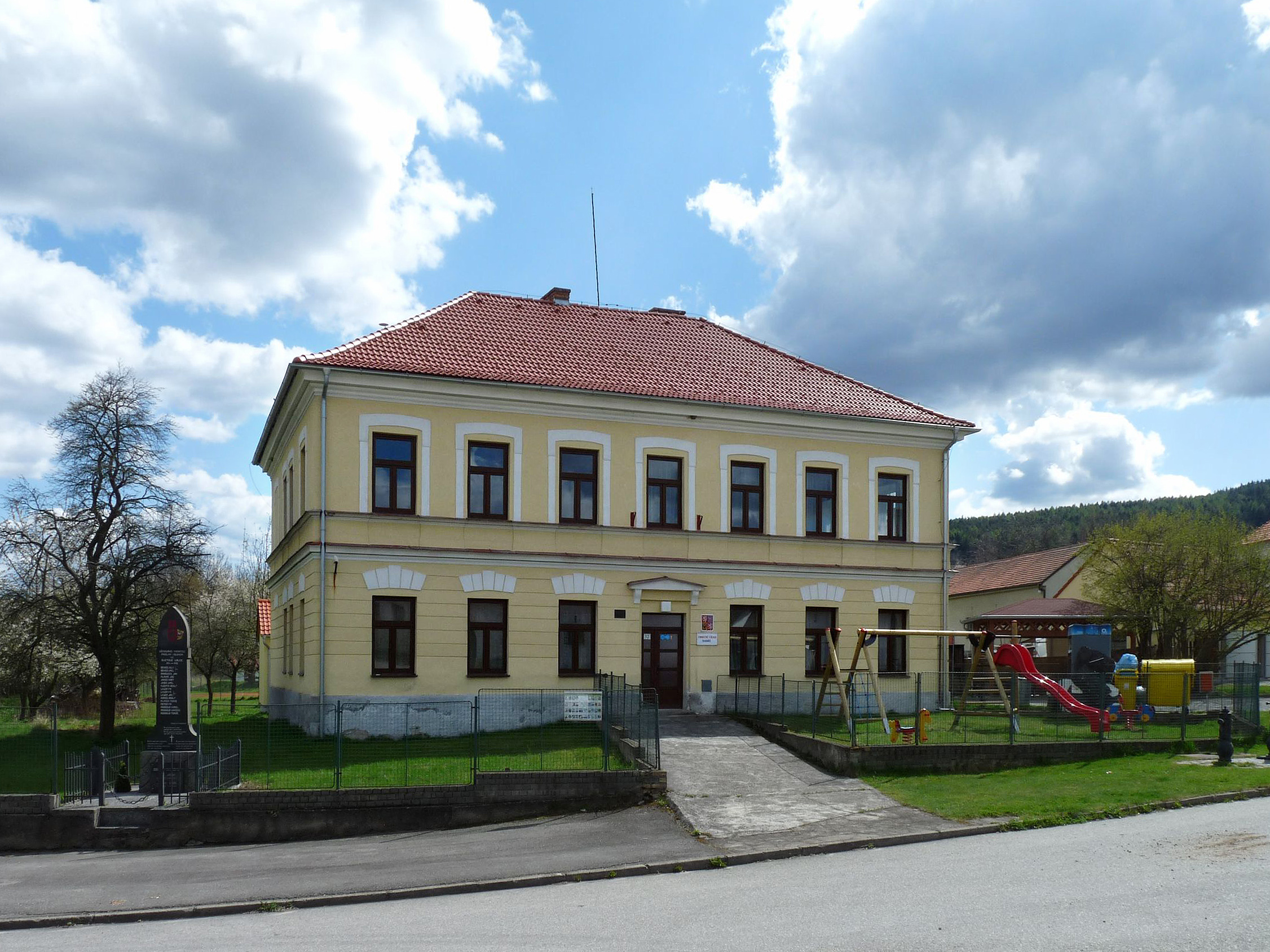 Municipal office building in the village of Habří, České Budějovice, Czech Republic.